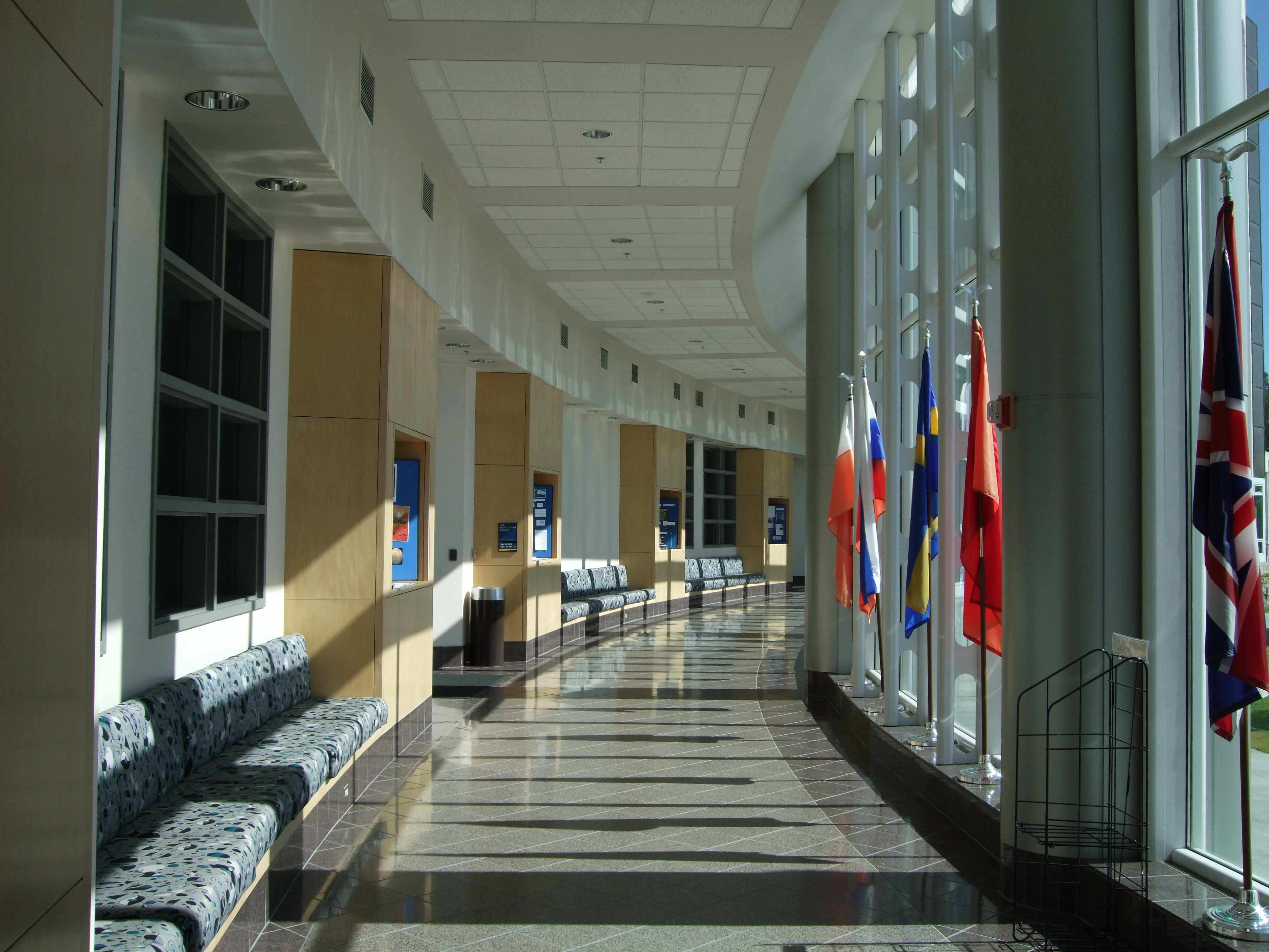 International Arctic Research Center, Fairbanks